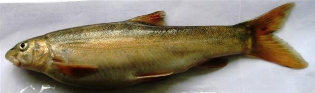 India, India, 20.03.2011, 25.4 cm, by Dipesh Debnath